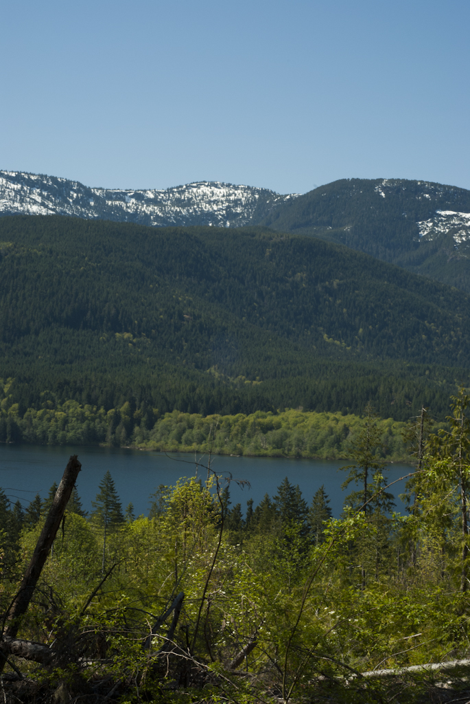 Spotted from one of the many mountain bike trails next to Sproat lake.